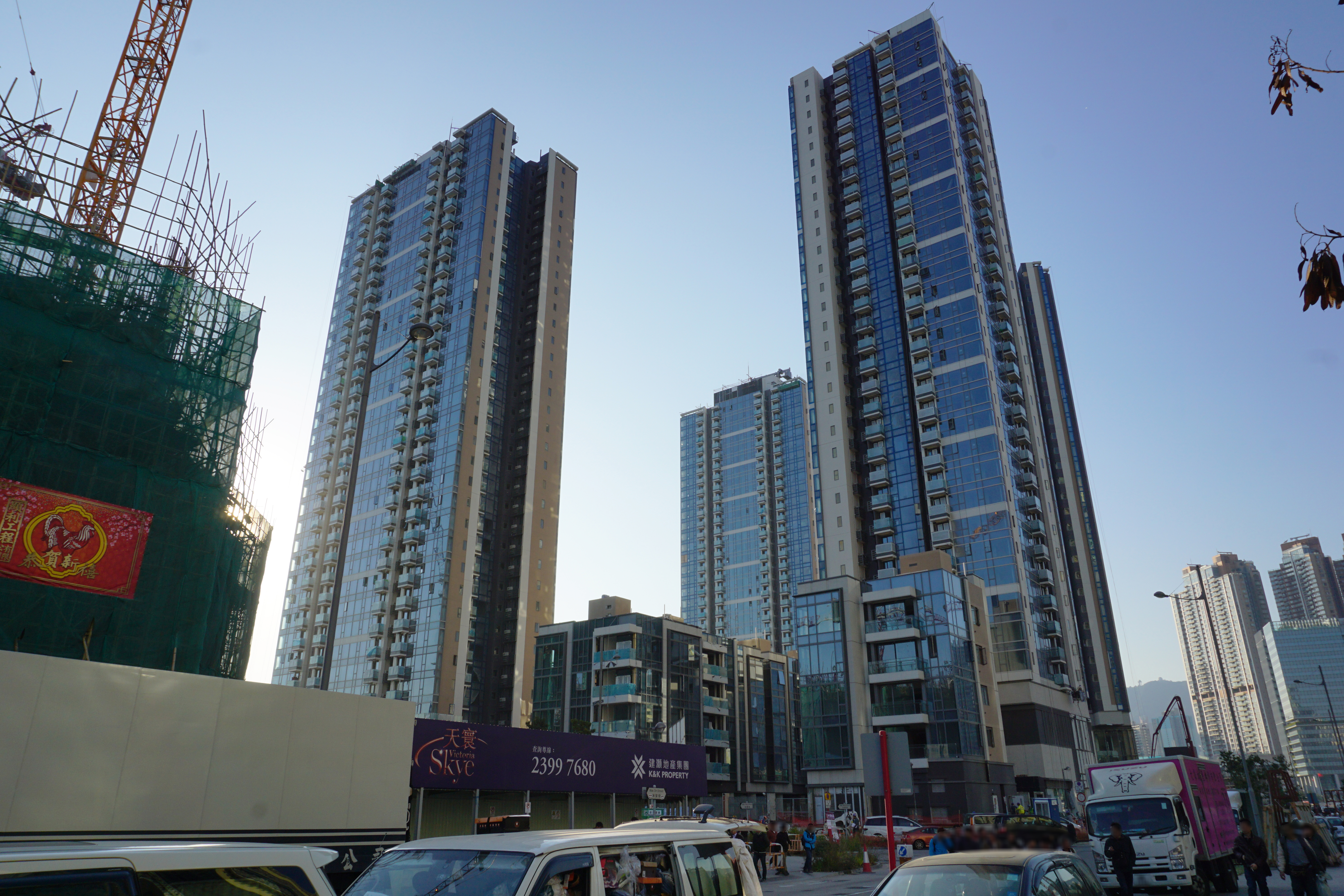 One Kai Tak in Kowloon City District, Hong Kong.